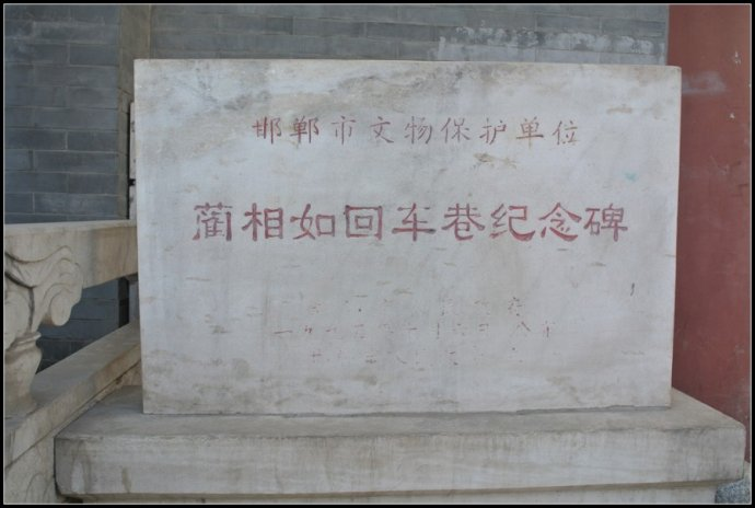 Huichexiang in Handan Old Town.